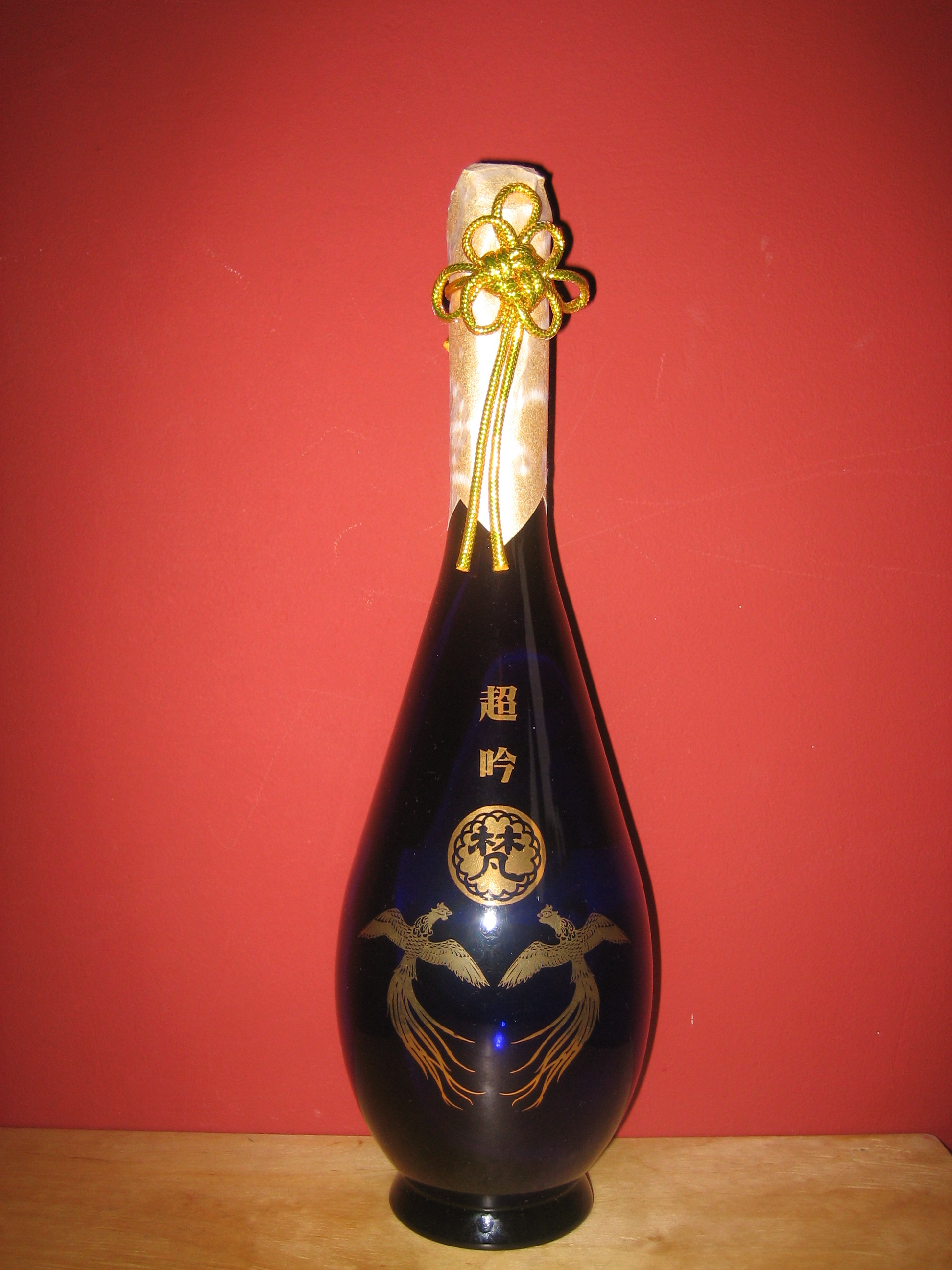 Sake bottle.